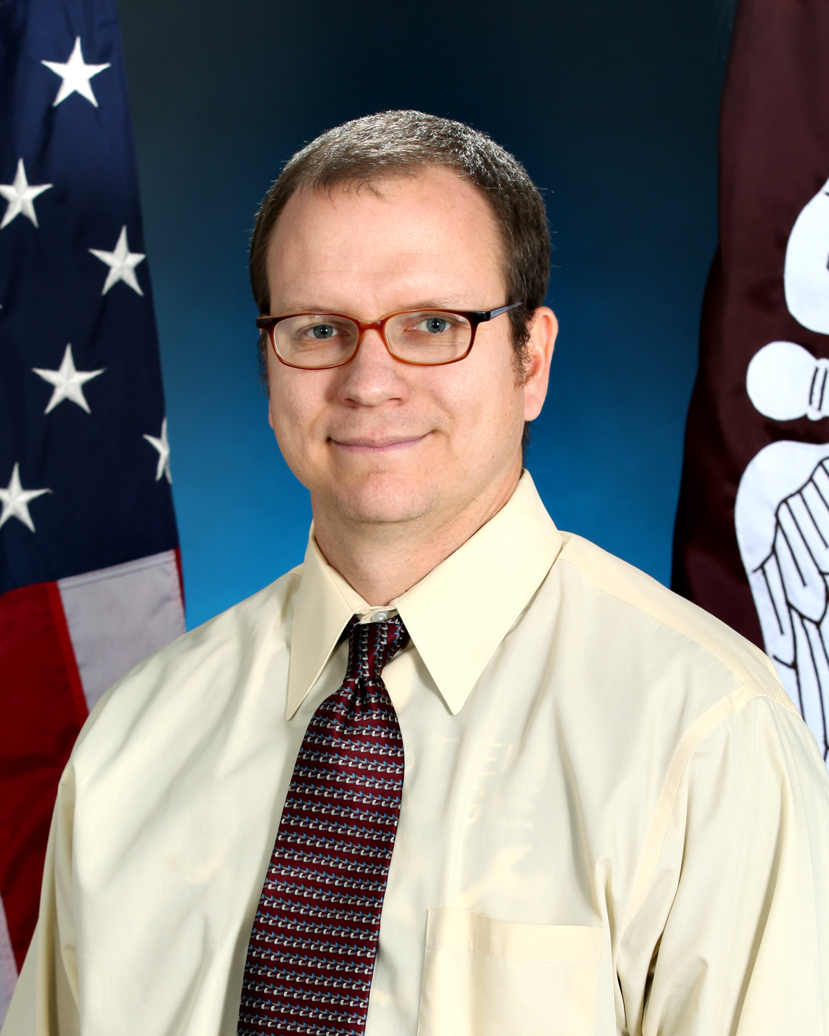 Picture of Dr. Ryan B. Schwope